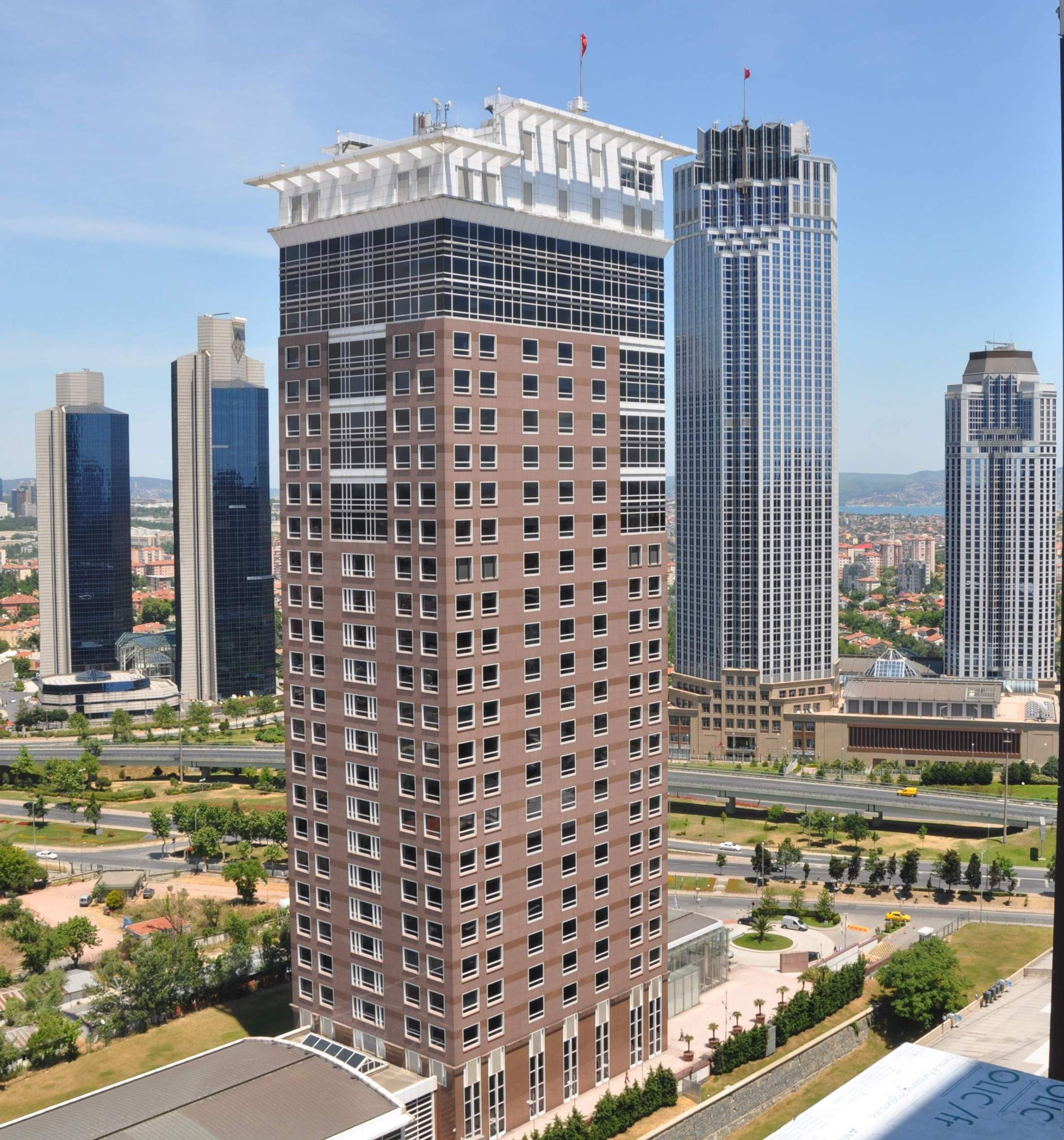 Sabanci (left), Tekfen (middle) & Işbank (right)